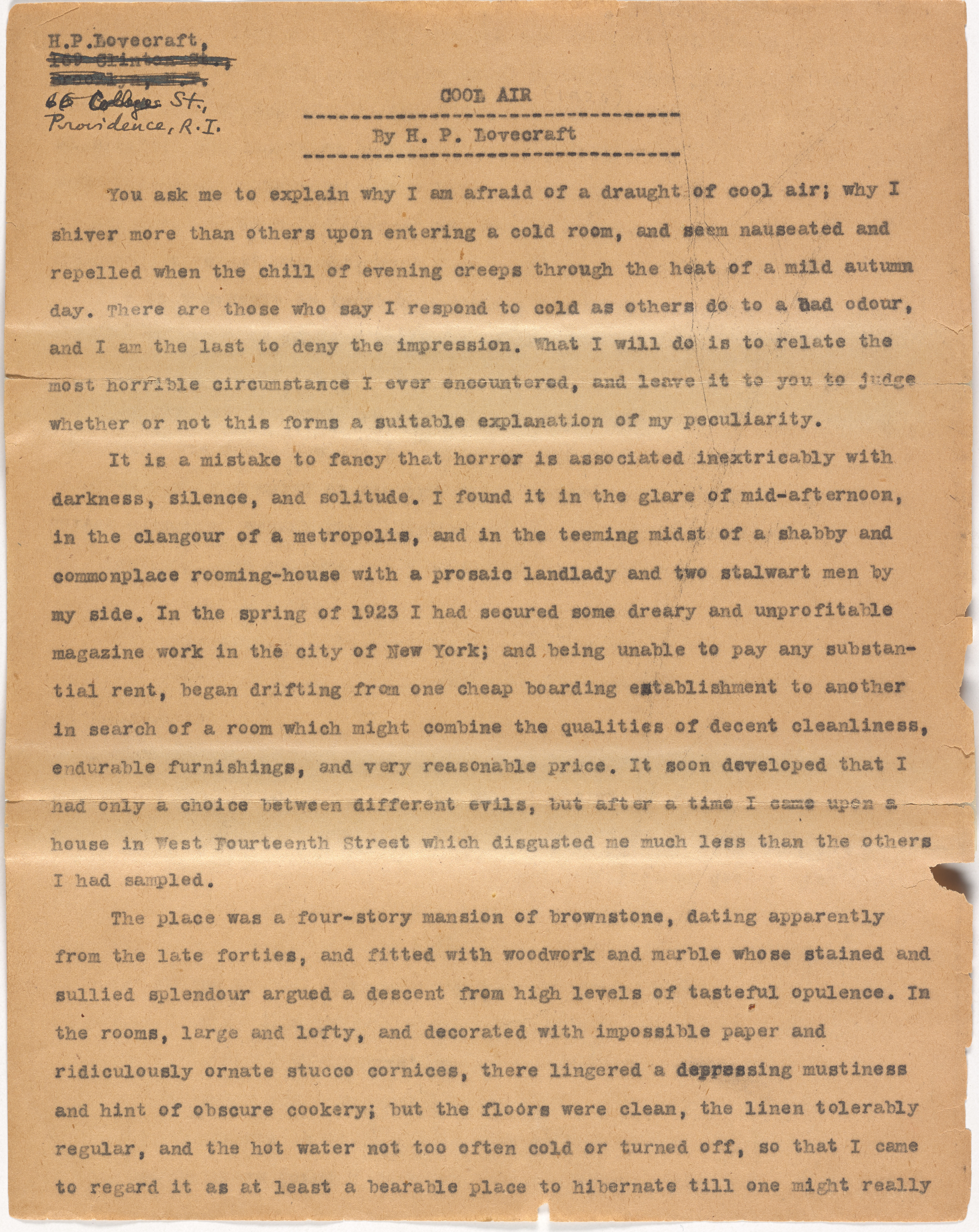 First page of the manuscript Cool Air.